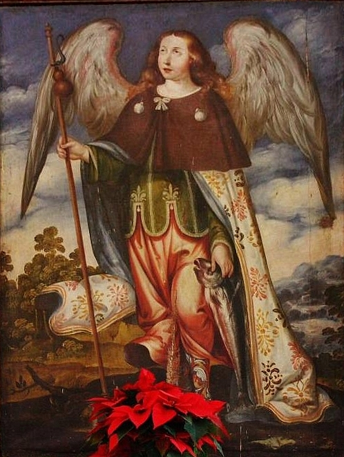 Saint Michael Tianguishahuatl Church, San Pedro Cholula, Puebla state, Mexico